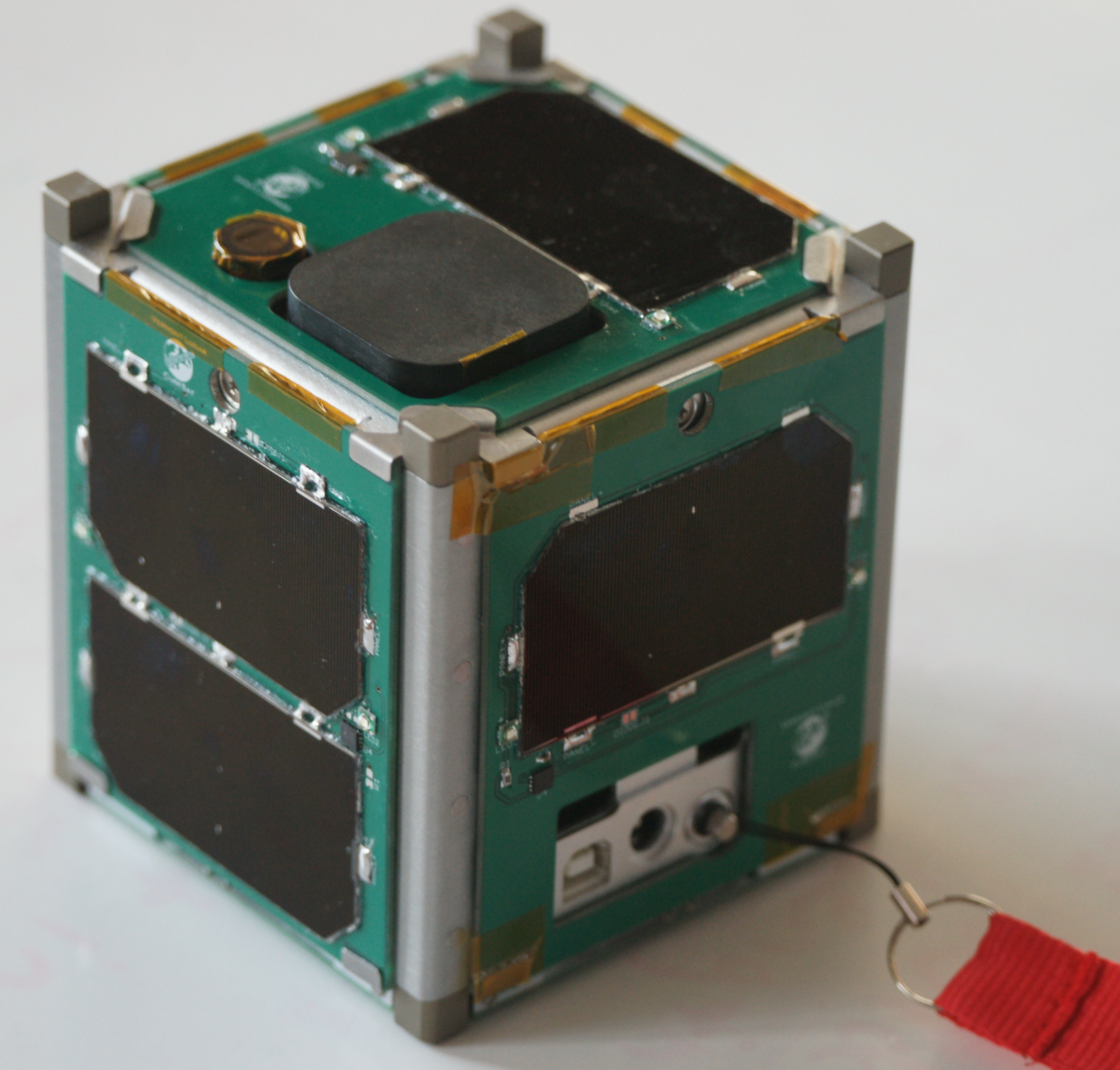 Vermont Lunar CubeSat following environmental tests, before launch.